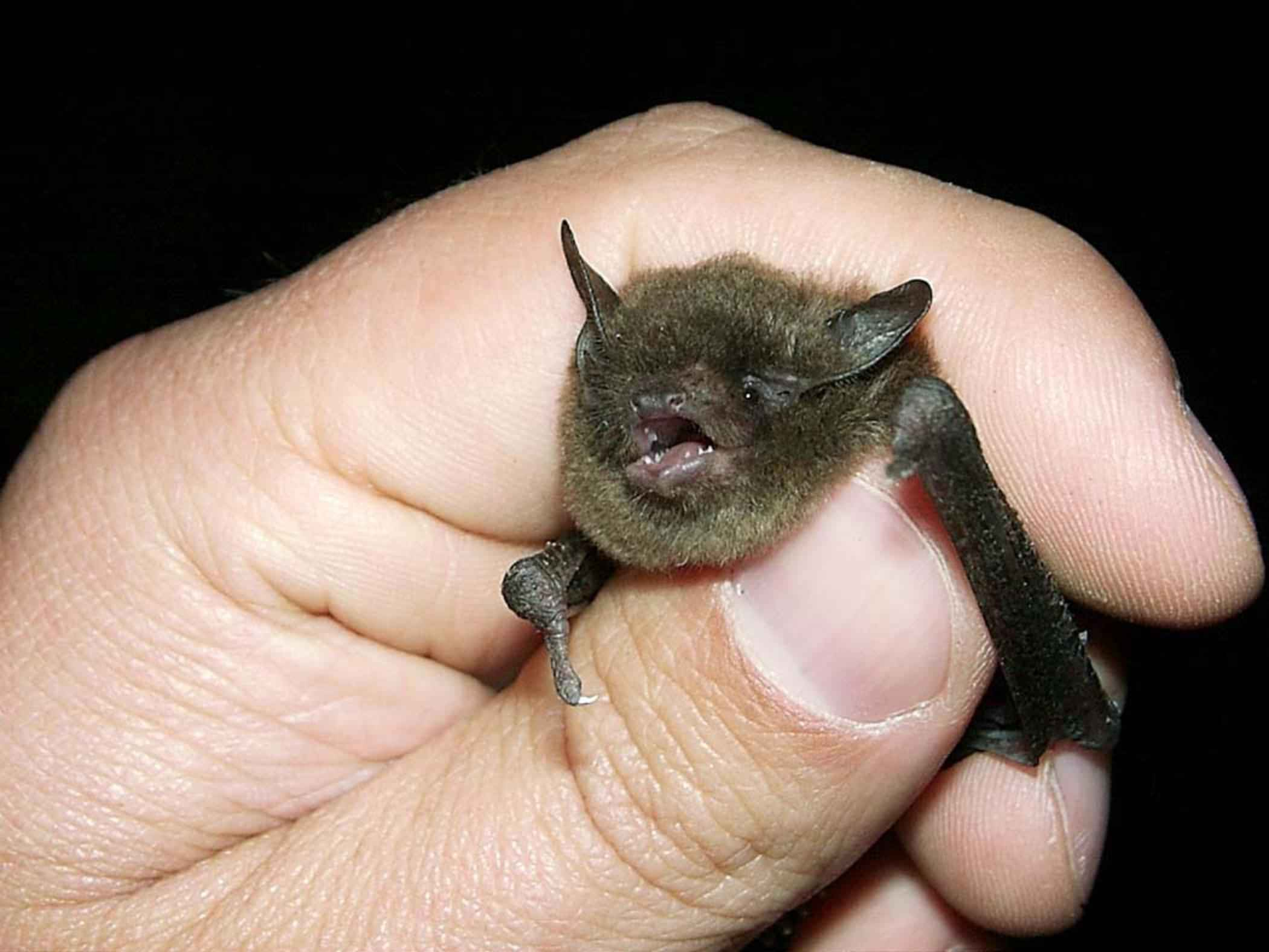 Image title: Indiana bat Image from Public domain images website